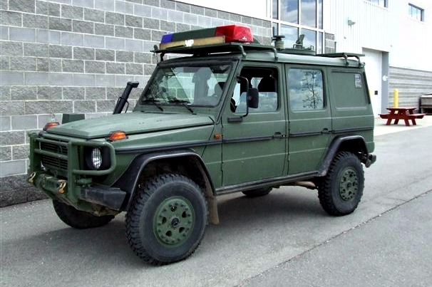 Canadian Military Police Mercedes-Benz G-Class vehicle (known as a "G-Wagen").